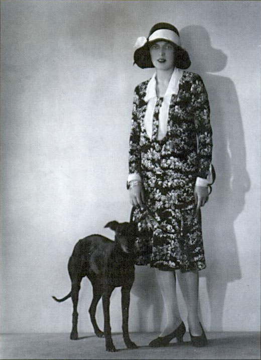 Caresse Crosby and her whippet Clytoris